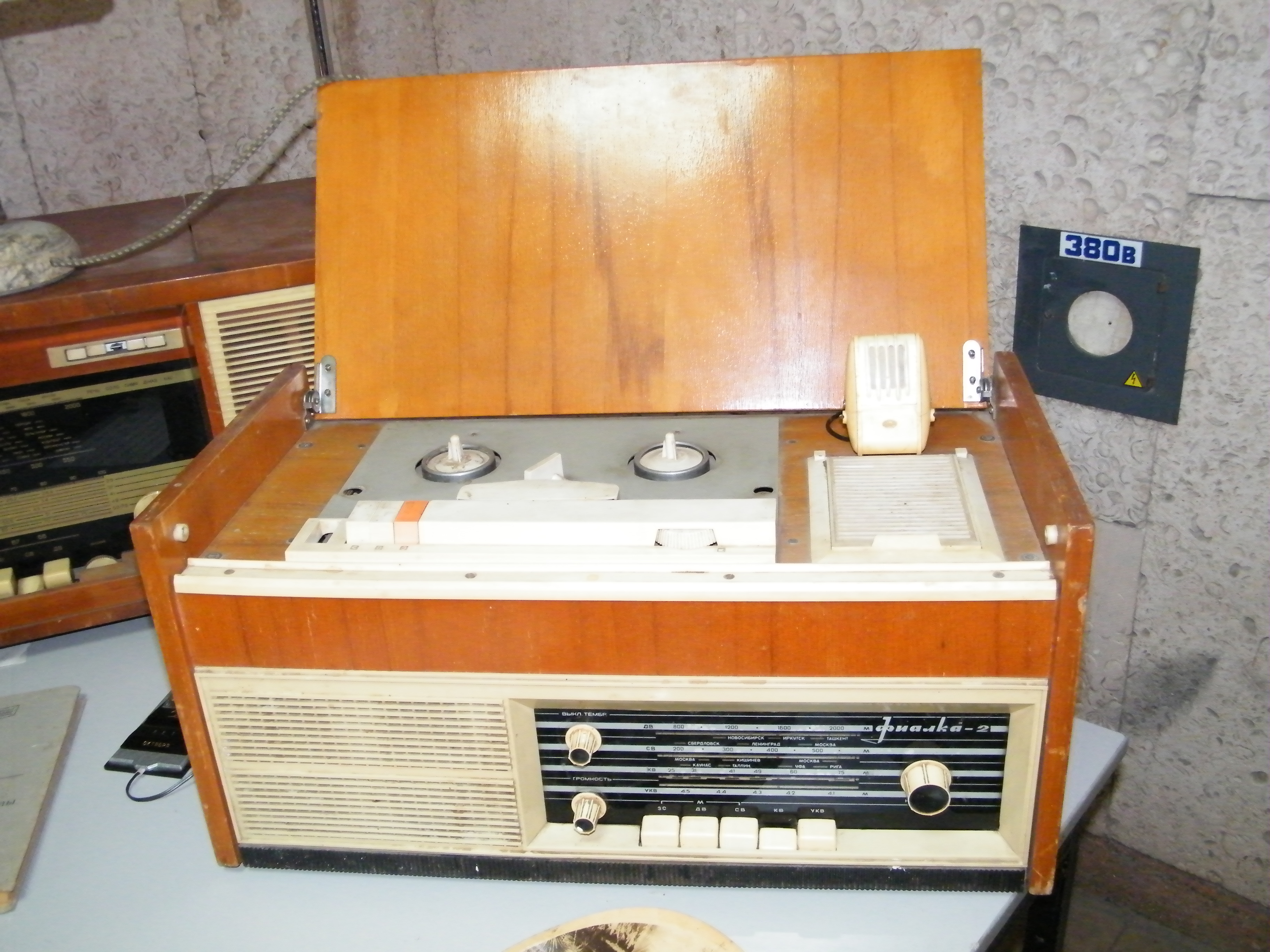 Fialka-2 tube radio recorder with MP-64 (Nota) tape deck. Berdsk Radio Plant, USSR, 1969